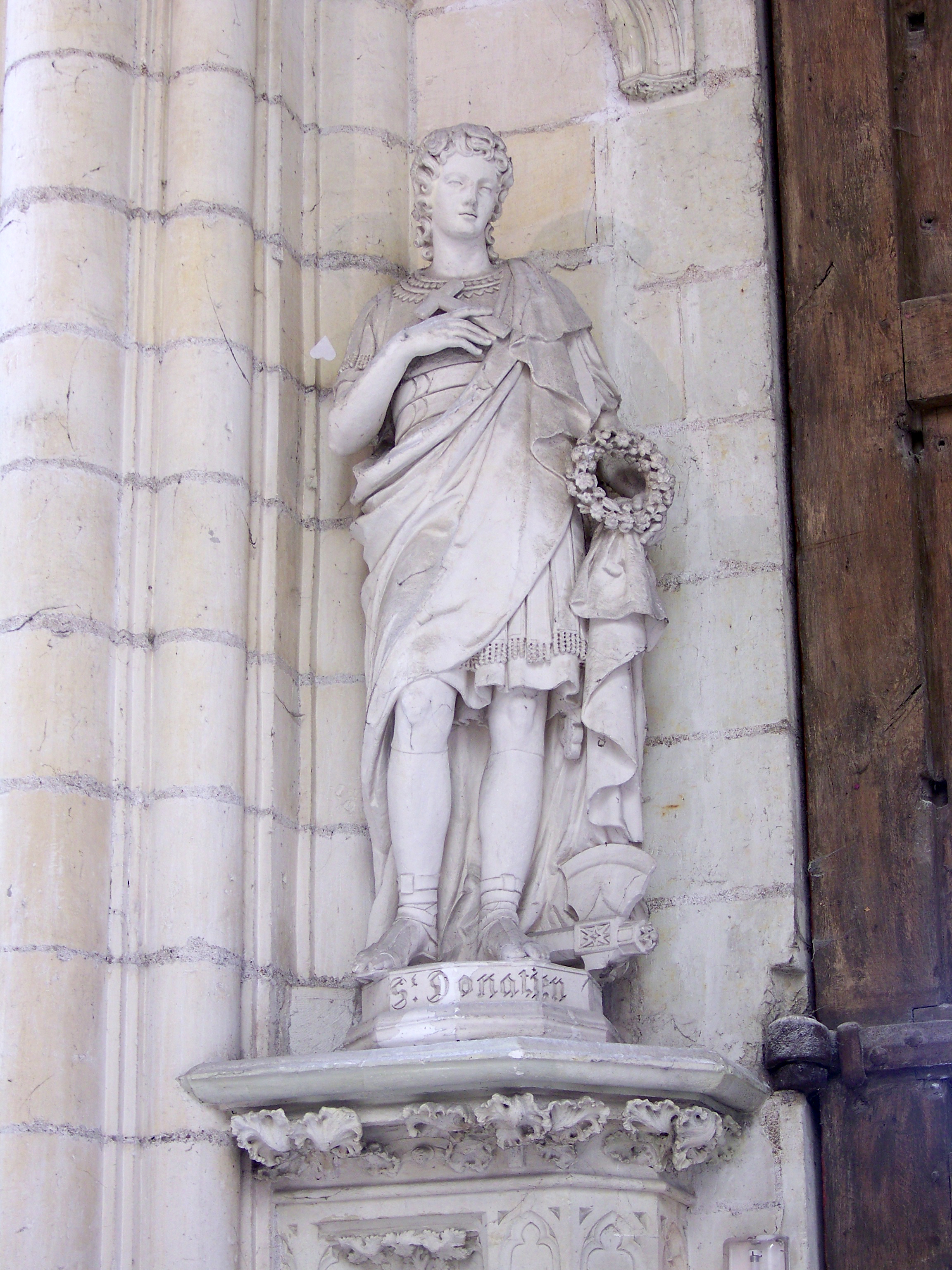 Statue of Saint Donatien on the left of the main portal of Nantes cathedral.